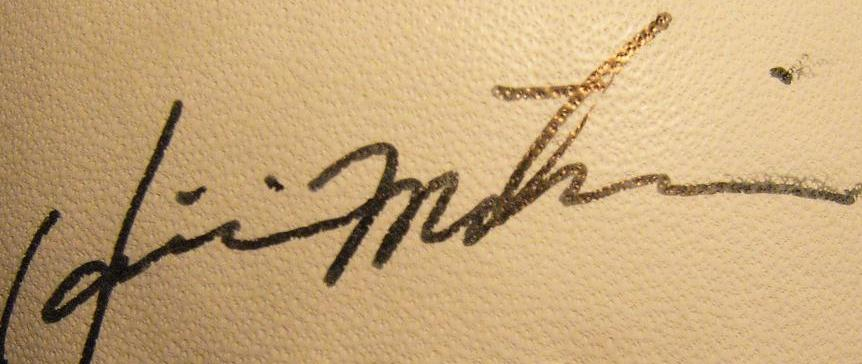 Hideki Matsui s signature 2009,2,5 Reprint from Flickr